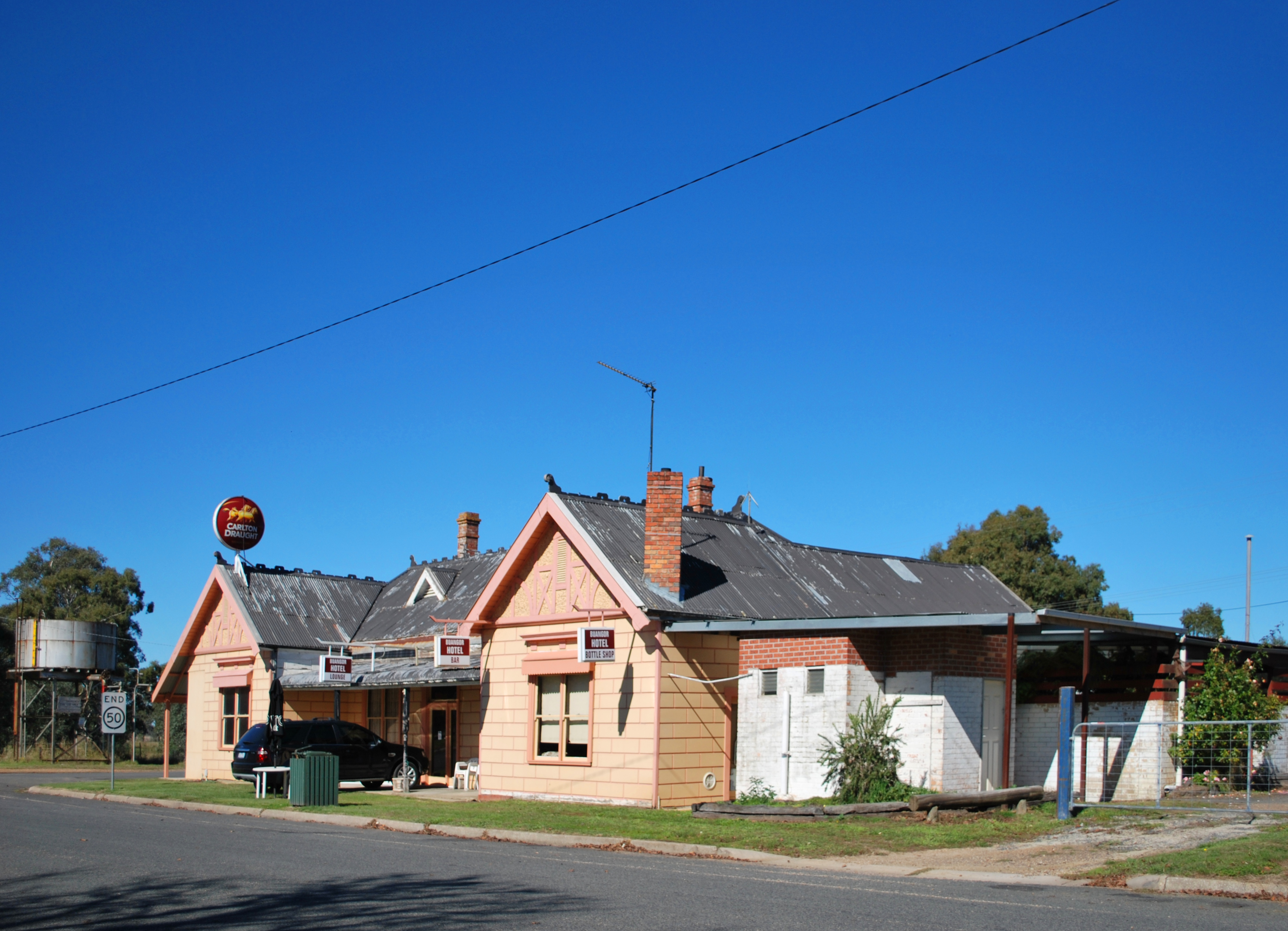 Buangor Hotel at Bunagor, Victoria